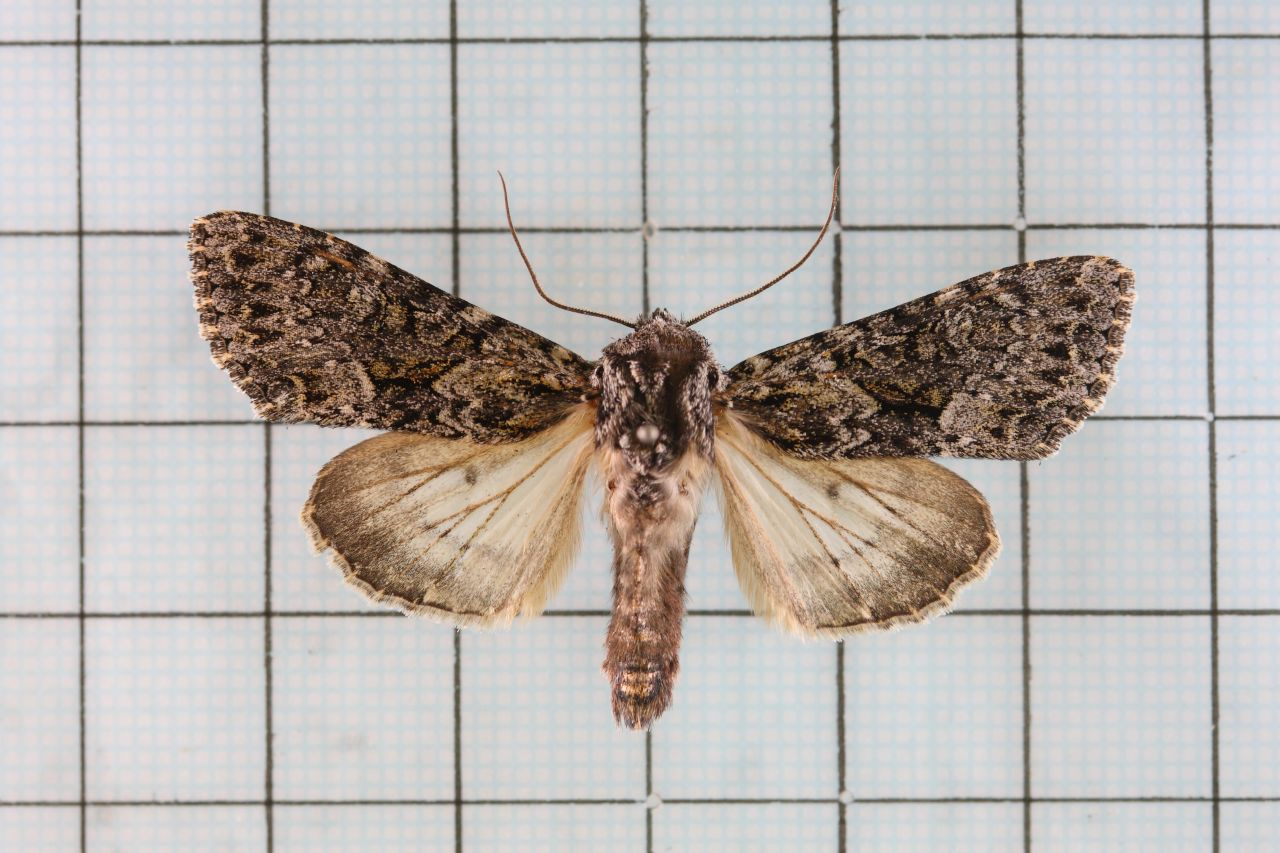 Mniotype aulombardi Plante, 1994 鞍1:P.96,Pl.26-11 Endemic Species of Taiwan